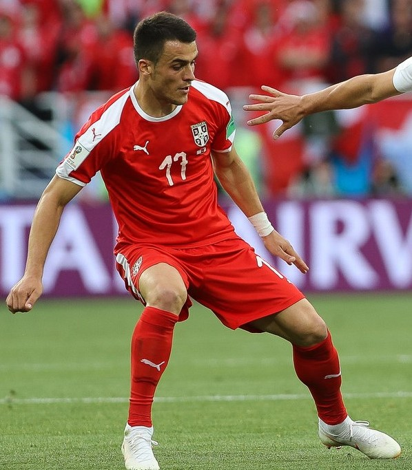 Granit Xhaka, Filip Kostić